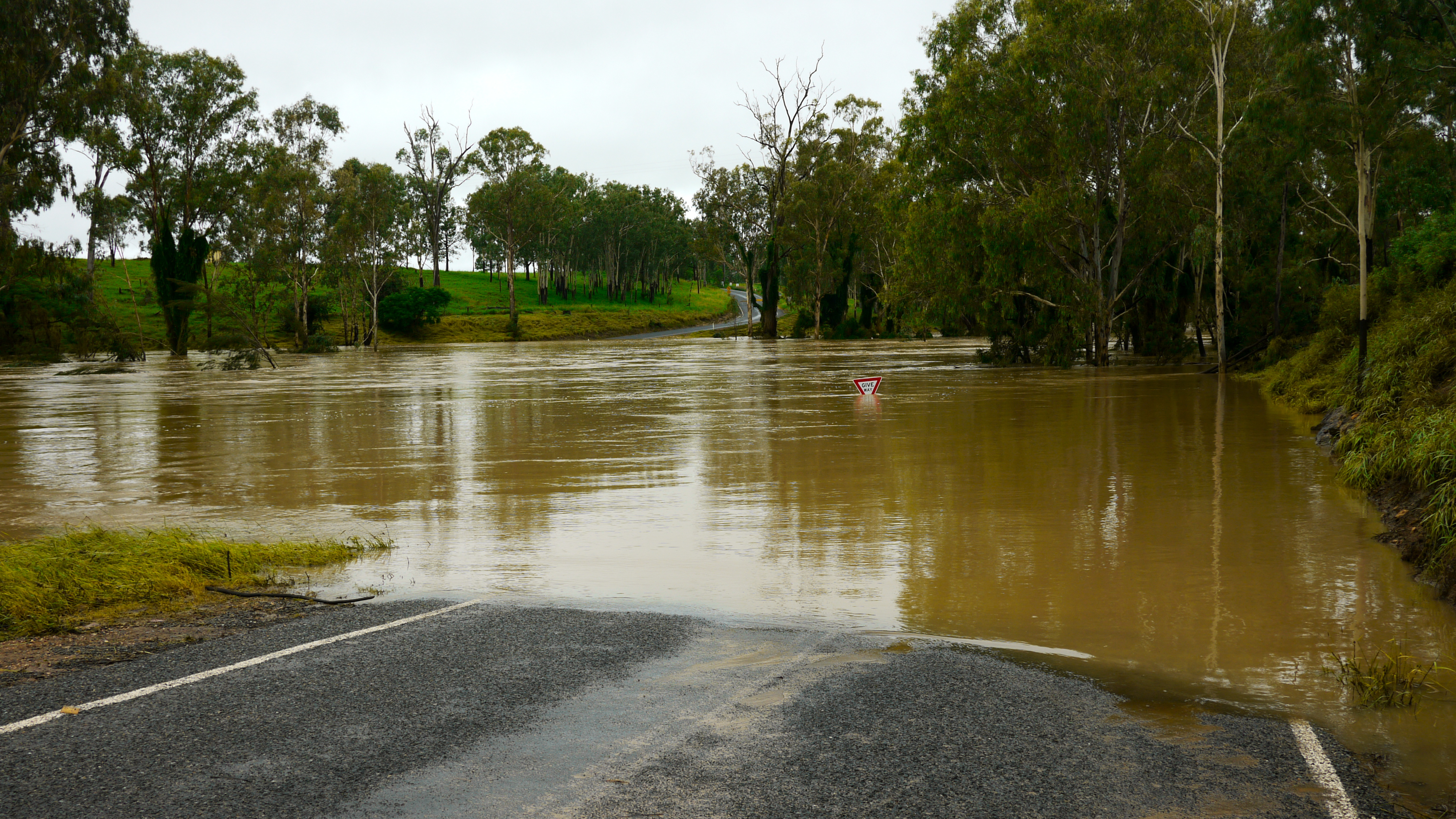 Flooding Boyne River cuts the Mundubbera-Durong Road south of Mundubbera